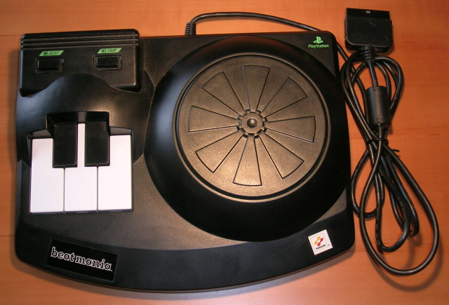 Beatmania DJ controller (PAL) (PlayStation 1, SLEH-000021, Konami product no: RU024).